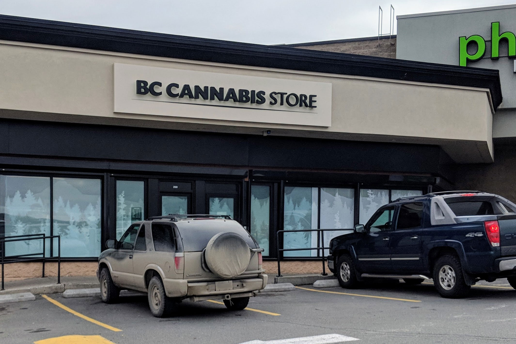 BC Cannabis Store in Kamloops, British Columbia, Canada. Photo taken in November 2019.